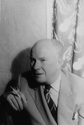 Vincent Sheean (1899-1975) Portrait of Vincent Sheean (1958-09-29)